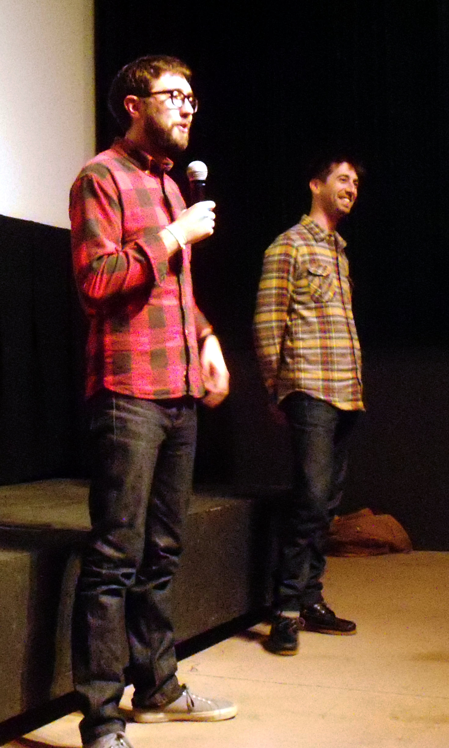 Lance Edmands (director) and Kyle Martin (producer) answer questions after the first Maine screening of Bluebird (2013 film) at the Railroad Square Cinema in Waterville, Maine.